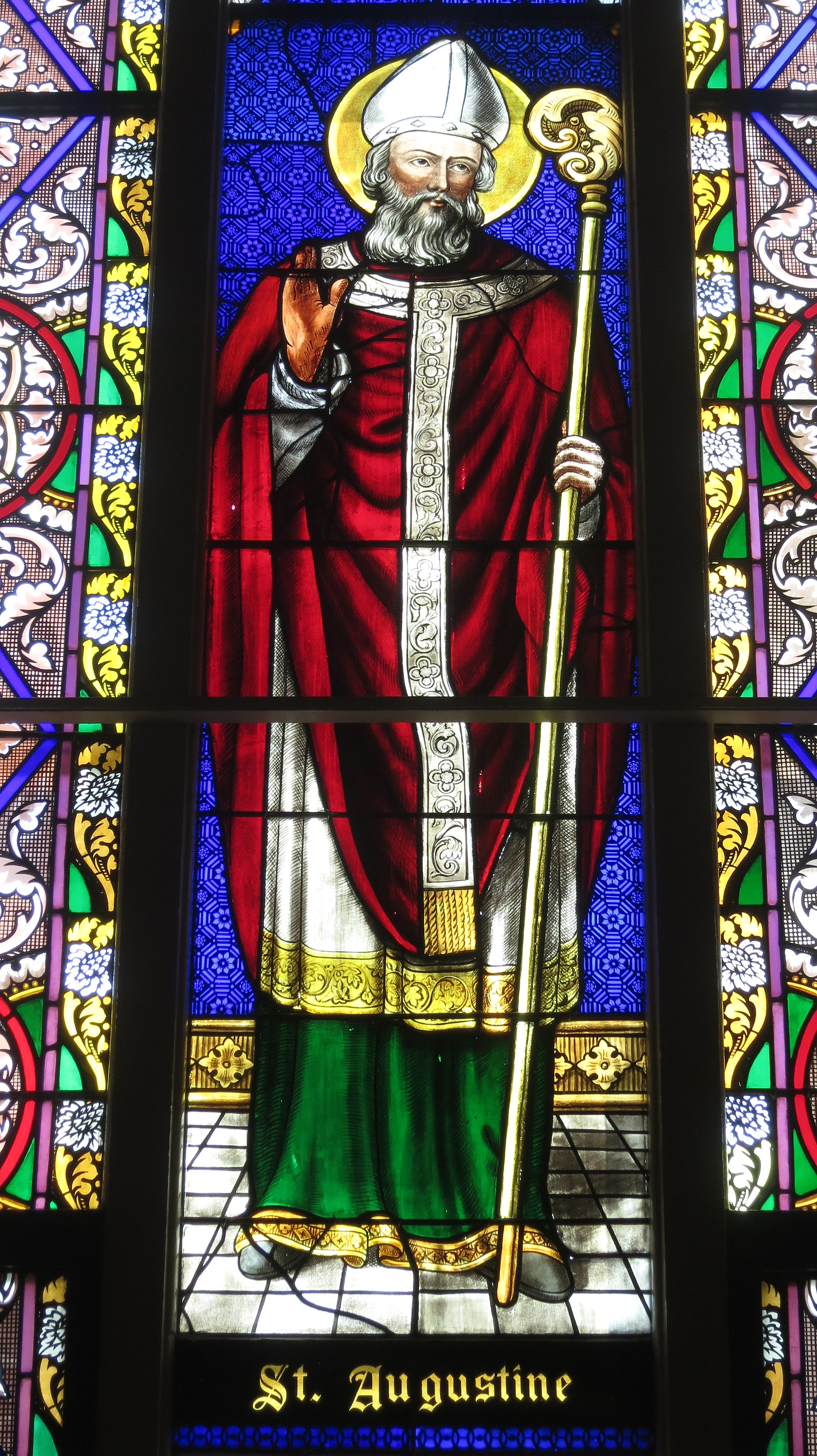 Saint Augustine Catholic Church (Minster, Ohio) - stained glass, St. Augustine of Hippo